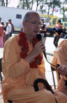 Satsvarupa dasa Goswami during the Houston Book Fair, 2005